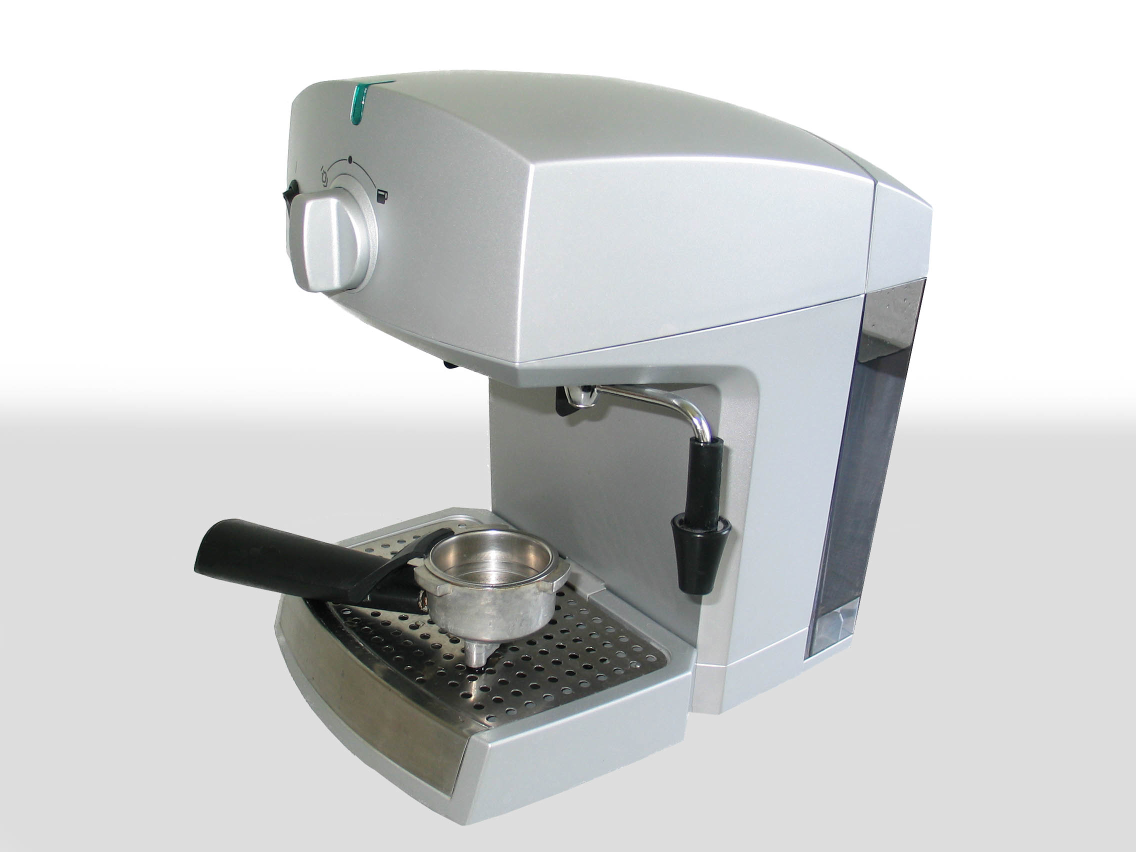 Semi Auitomatic Espresso Machine